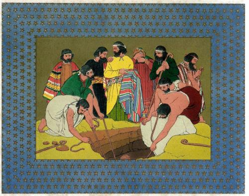 Illustration by Owen Jones from "The History of Joseph and His Brethren" (Day & Son, 1869). Scanned and archived at where it was marked as Public Domain. Text from Book: And Reuben said unto them, shed no blood, but cast him into the pit that is in the wilderness, and lay no hand upon him; that he might rid him out of their hands, to deliver him to his father again. Genesis, C. XXXVII. V. 22.